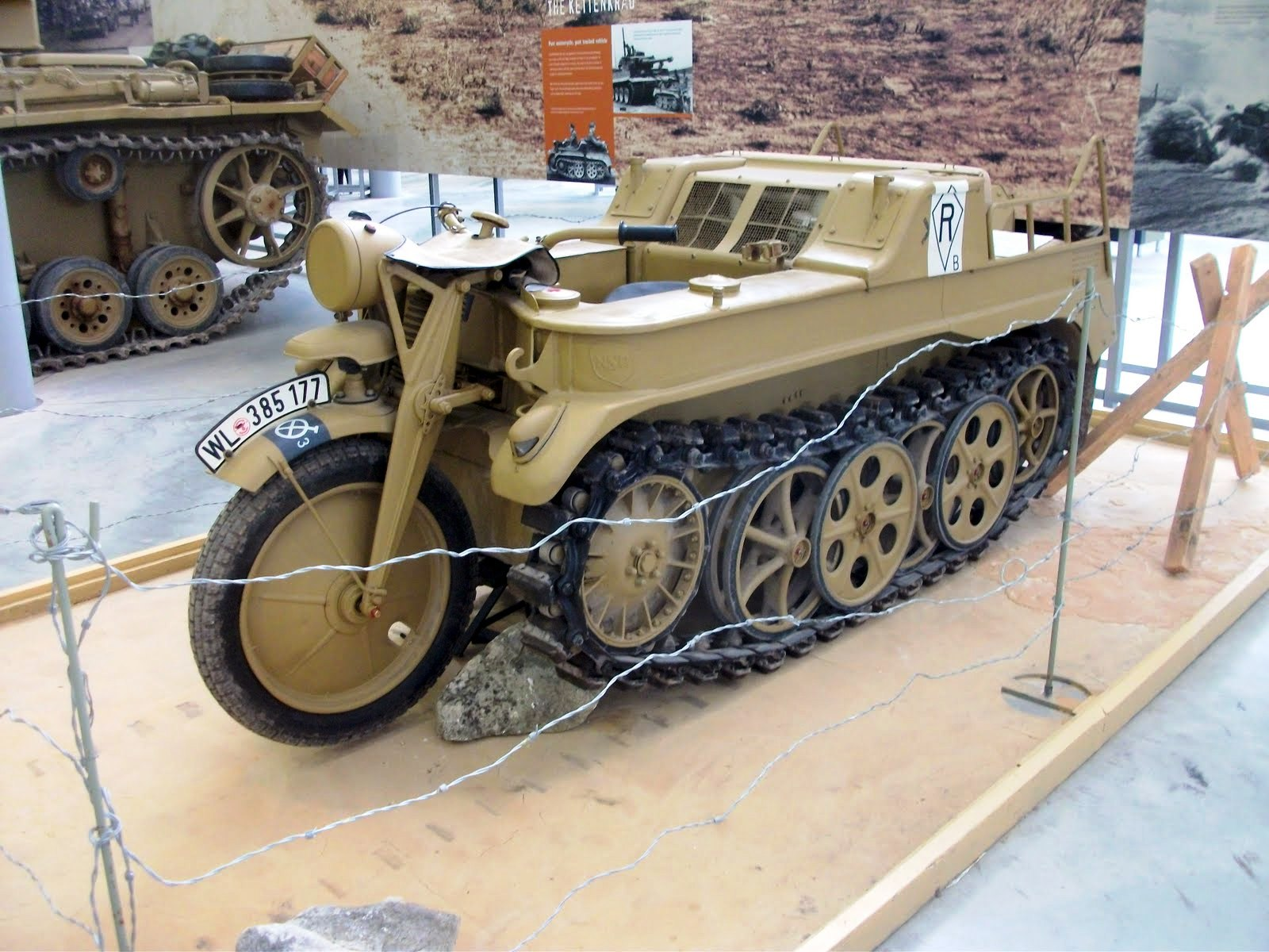 Kettenkrad